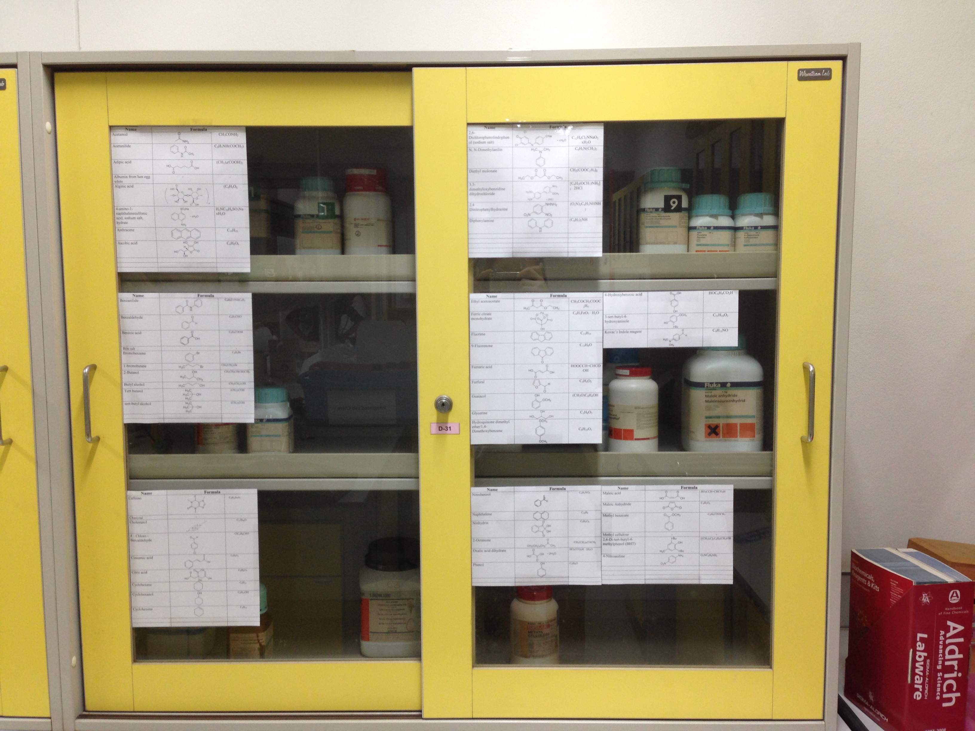 Chemical cabinet with chemicals arranged in alphabetical order